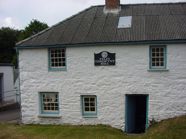 Felin Tregwynt Mill.